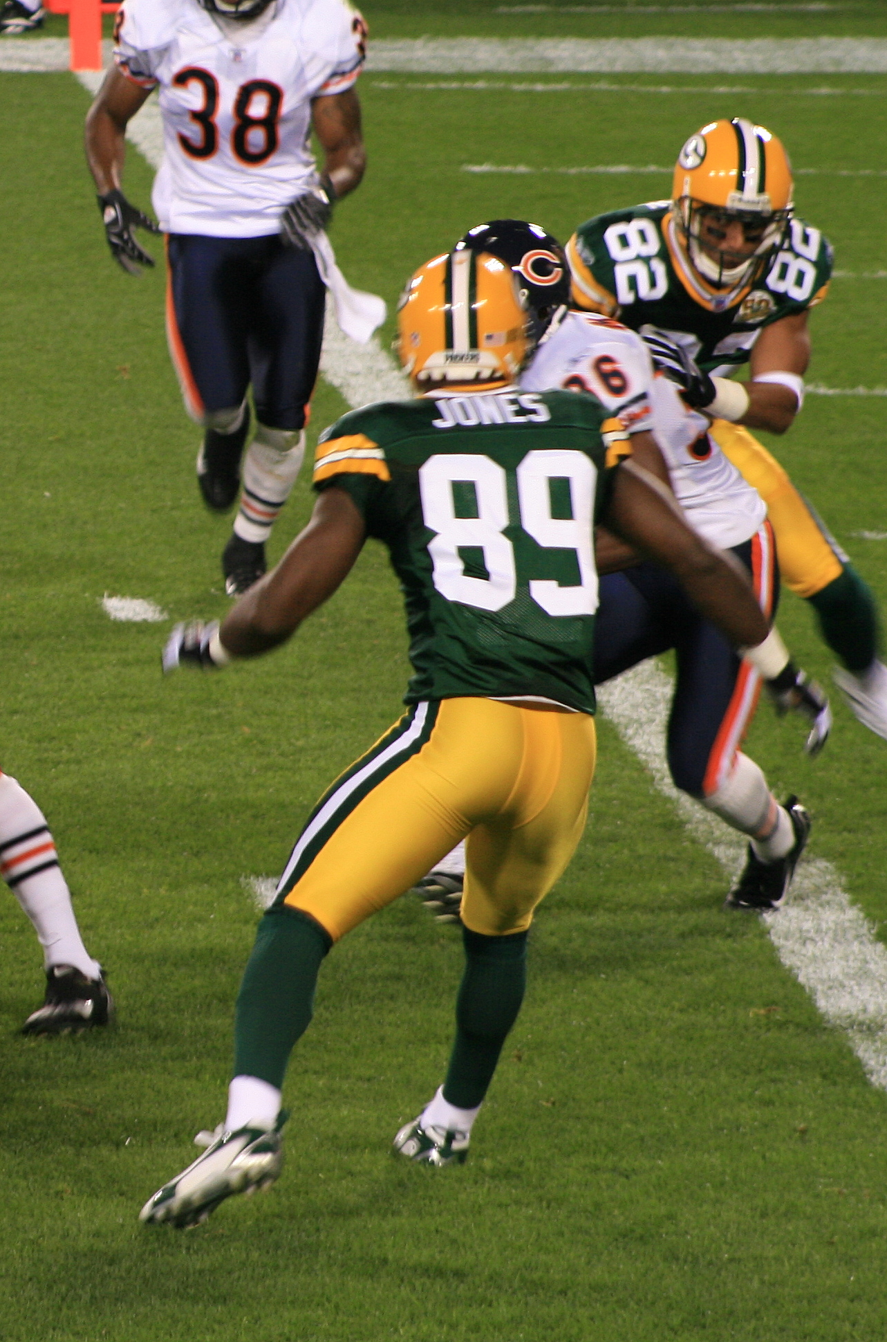 James Jones (wide receiver) blocking during a Green Bay Packers game.